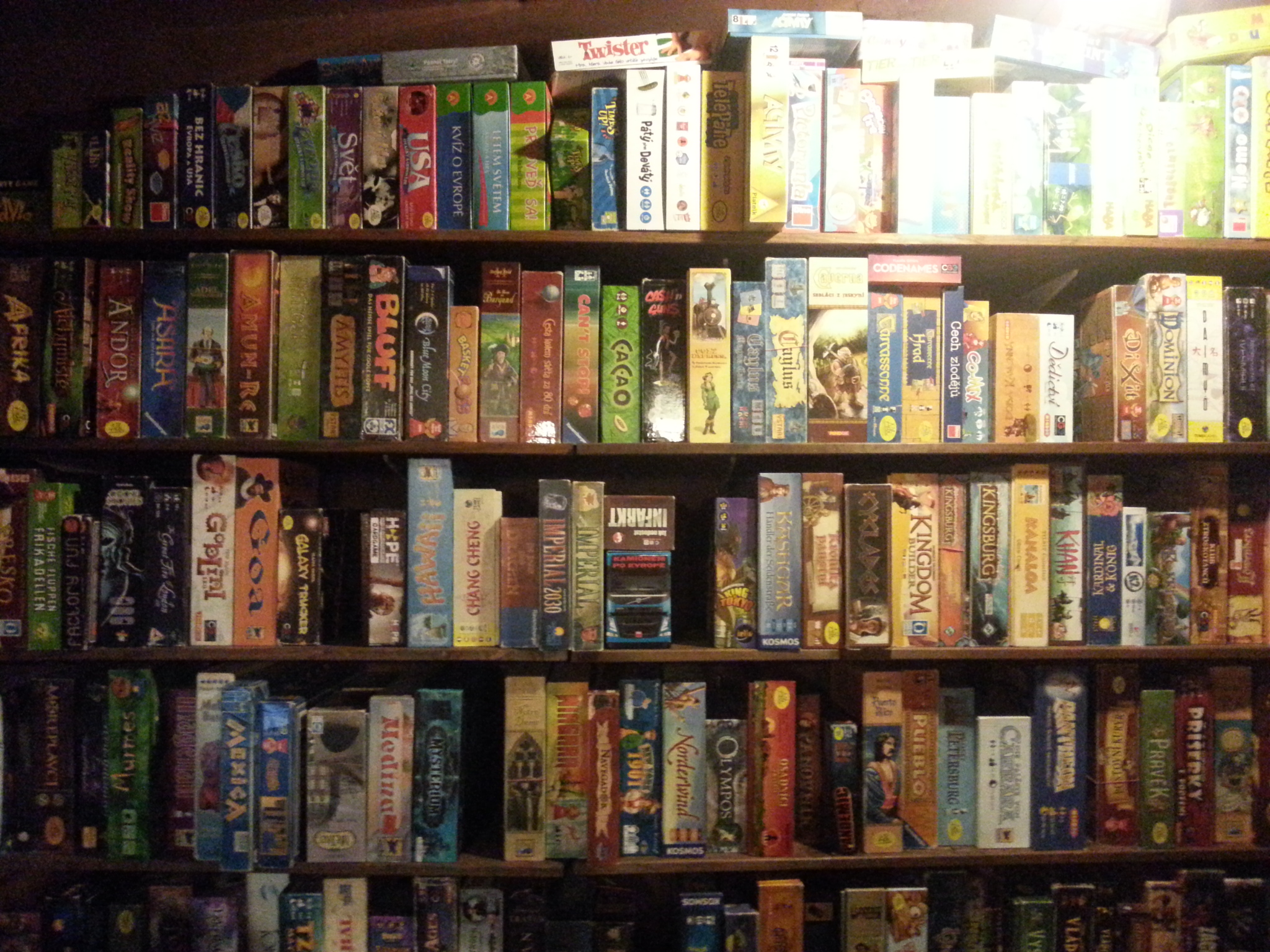 Shelves at a board games club, Prague, Czech Republic, 2016.